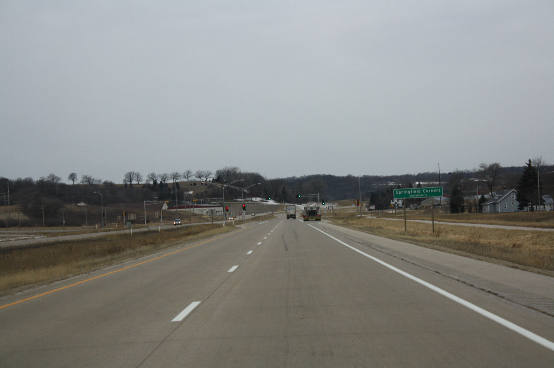 The sign for Springfield Corners, Wisconsin.